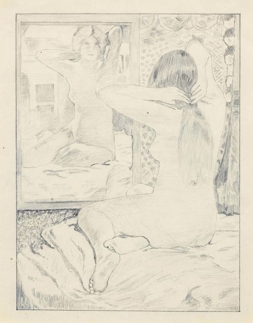 The scarlet ribbon, study